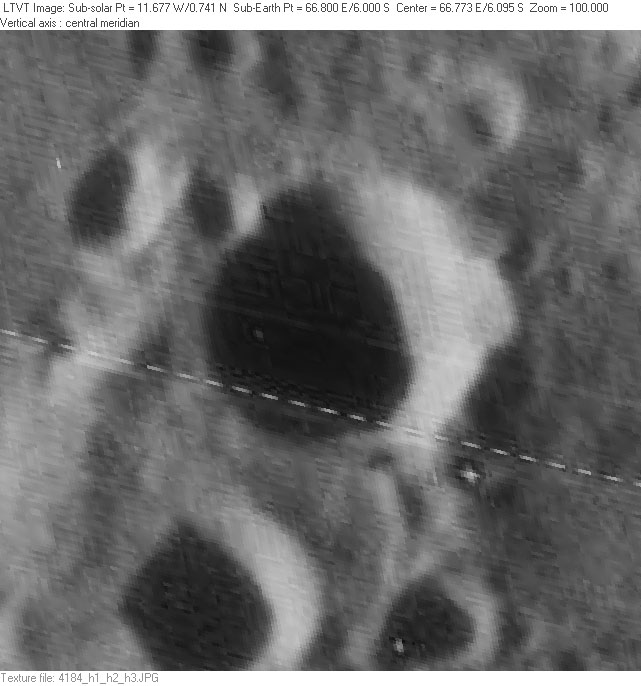 Crater Born - LO-IV-184H image